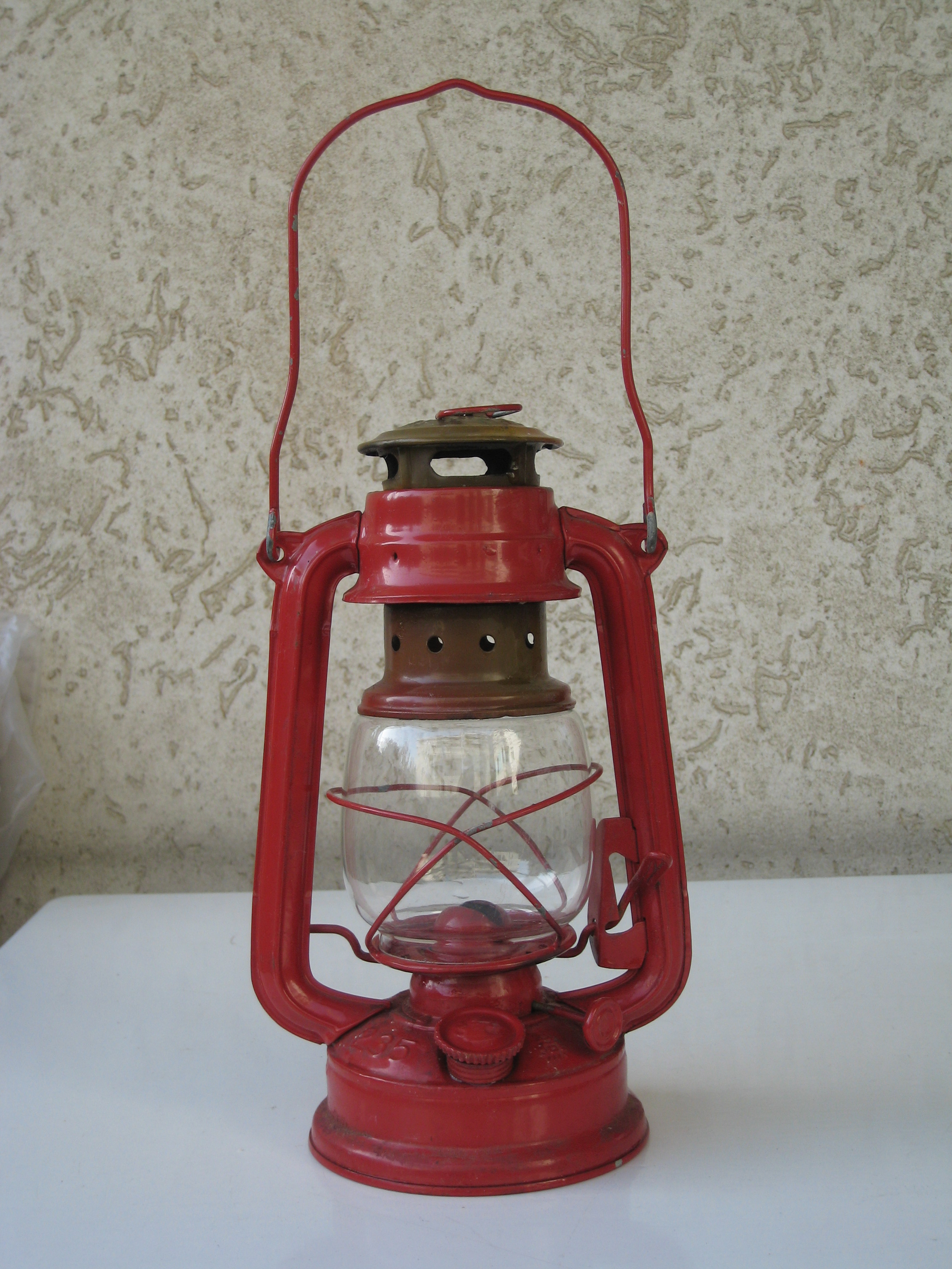 Kerosene lamp